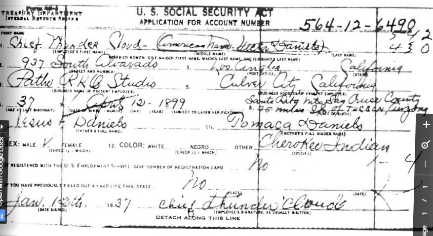 Application for an Account Number filed January 12, 1937 in California